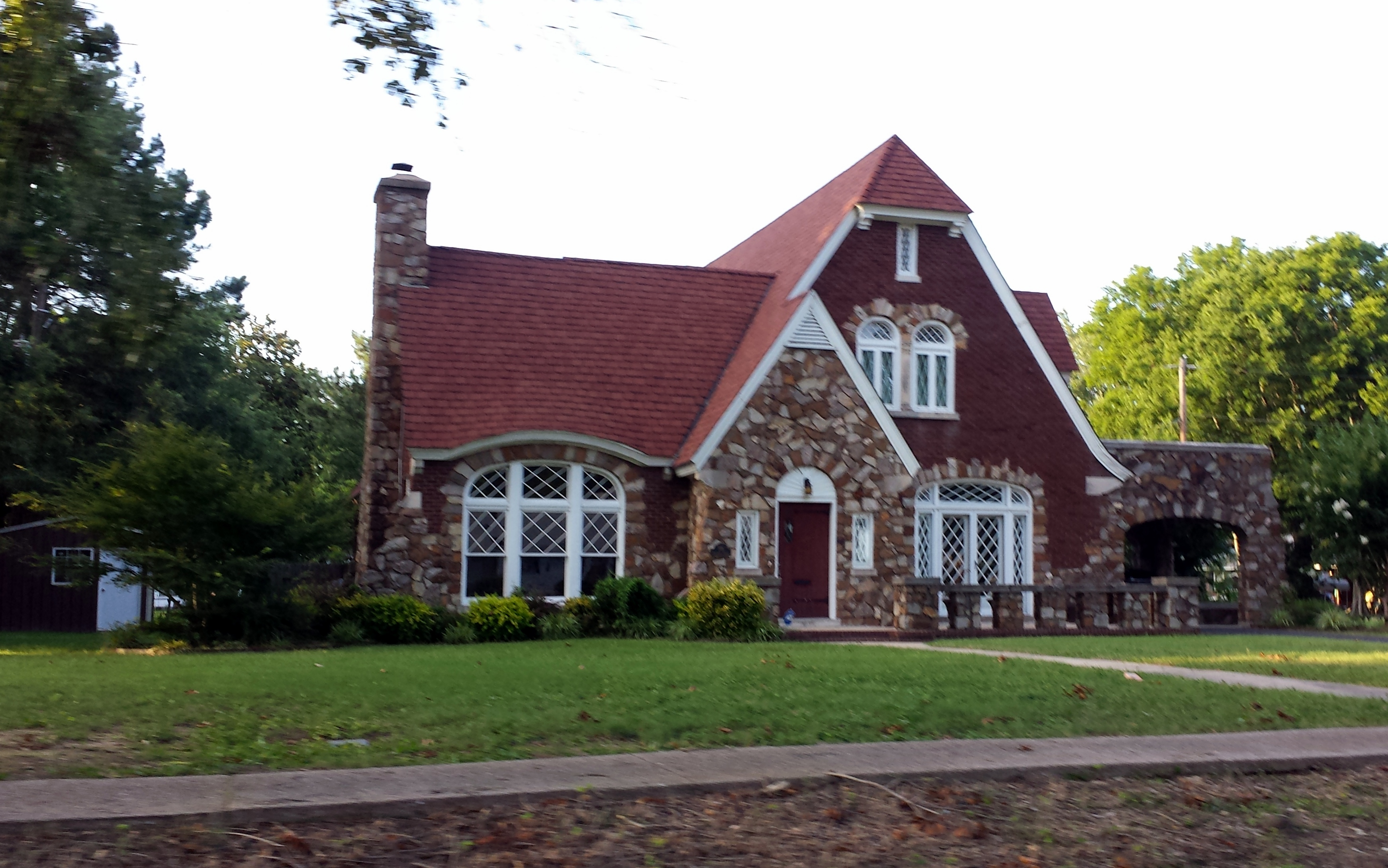 316 Jefferson 1930 English Revival design by Memphis architect Estes Mann